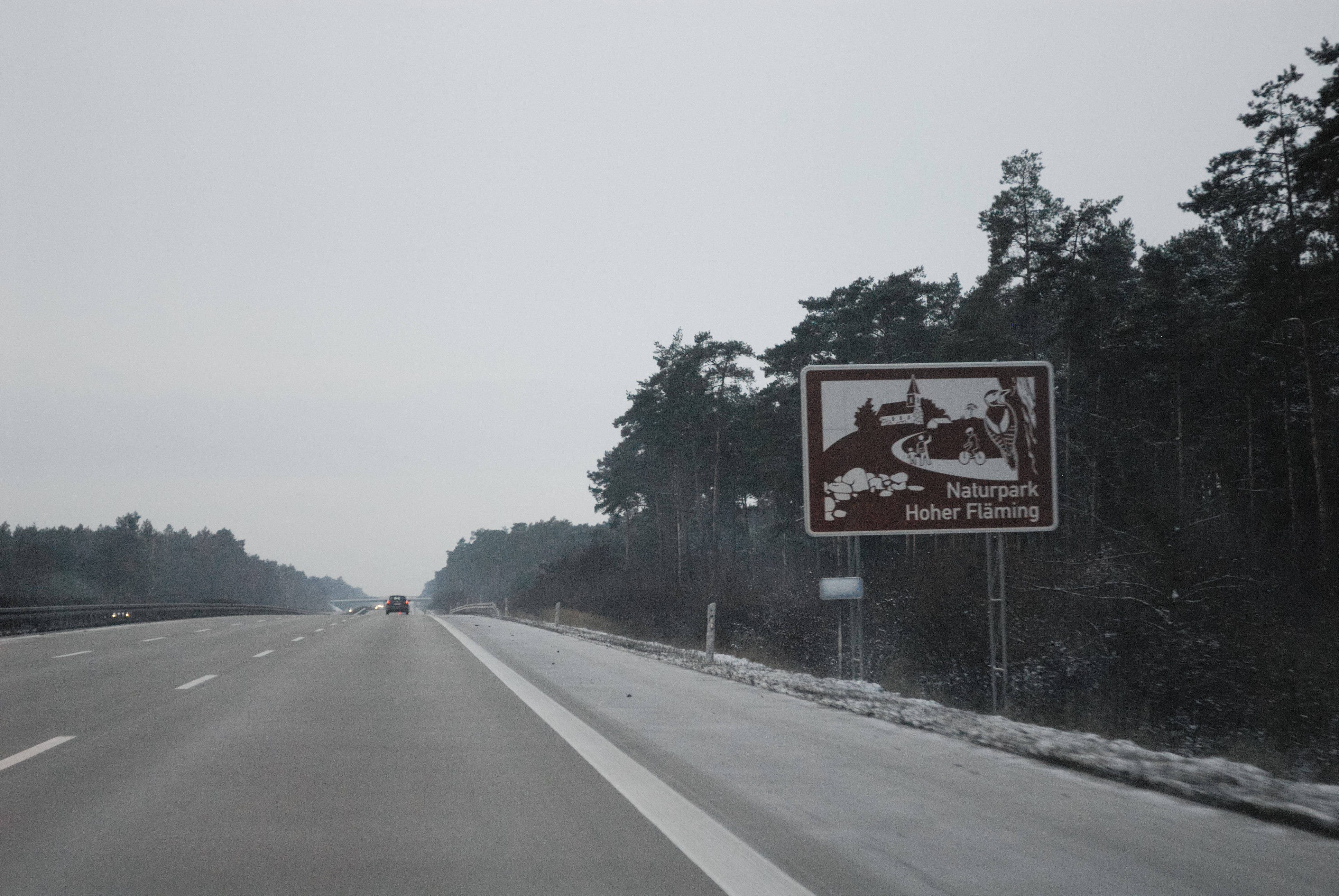 Road sign for High Fläming Nature Park. Road shot from A 2.